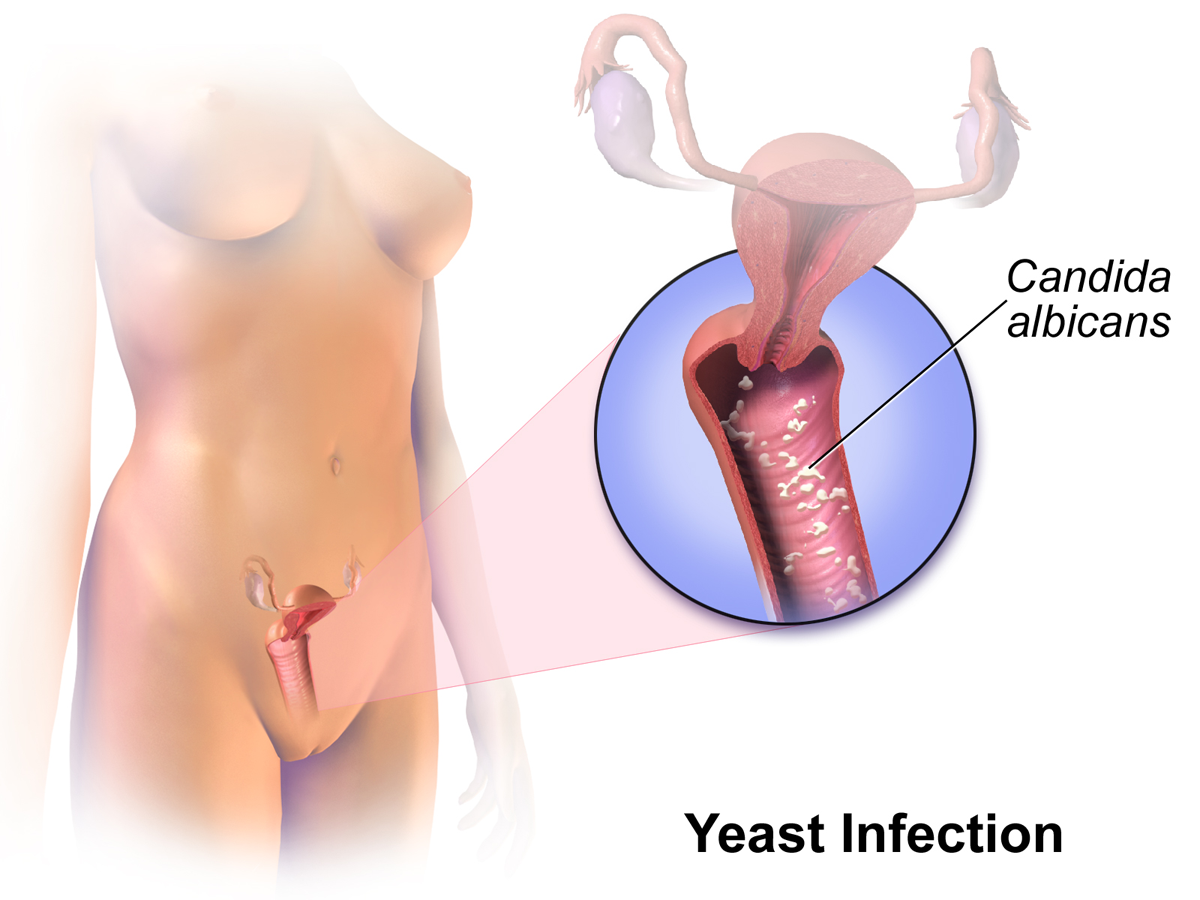 Yeast Infection. See a full animation of this medical topic.